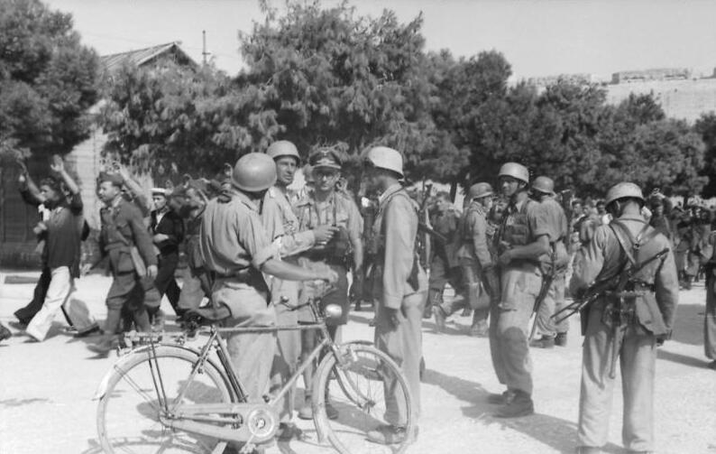 Information added by Wikimedia users.*